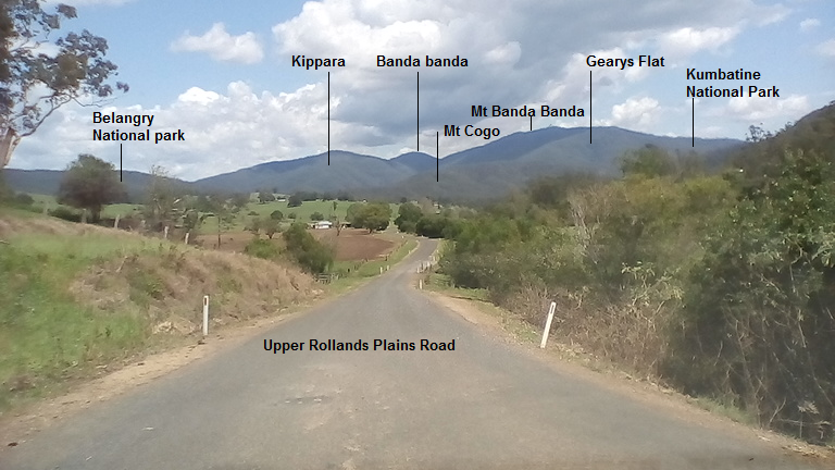 Landscape of Rollins Plains with other localities listed in the background. The localities of Kippara, Banda Banda and Gearys Flat shown in the distance .